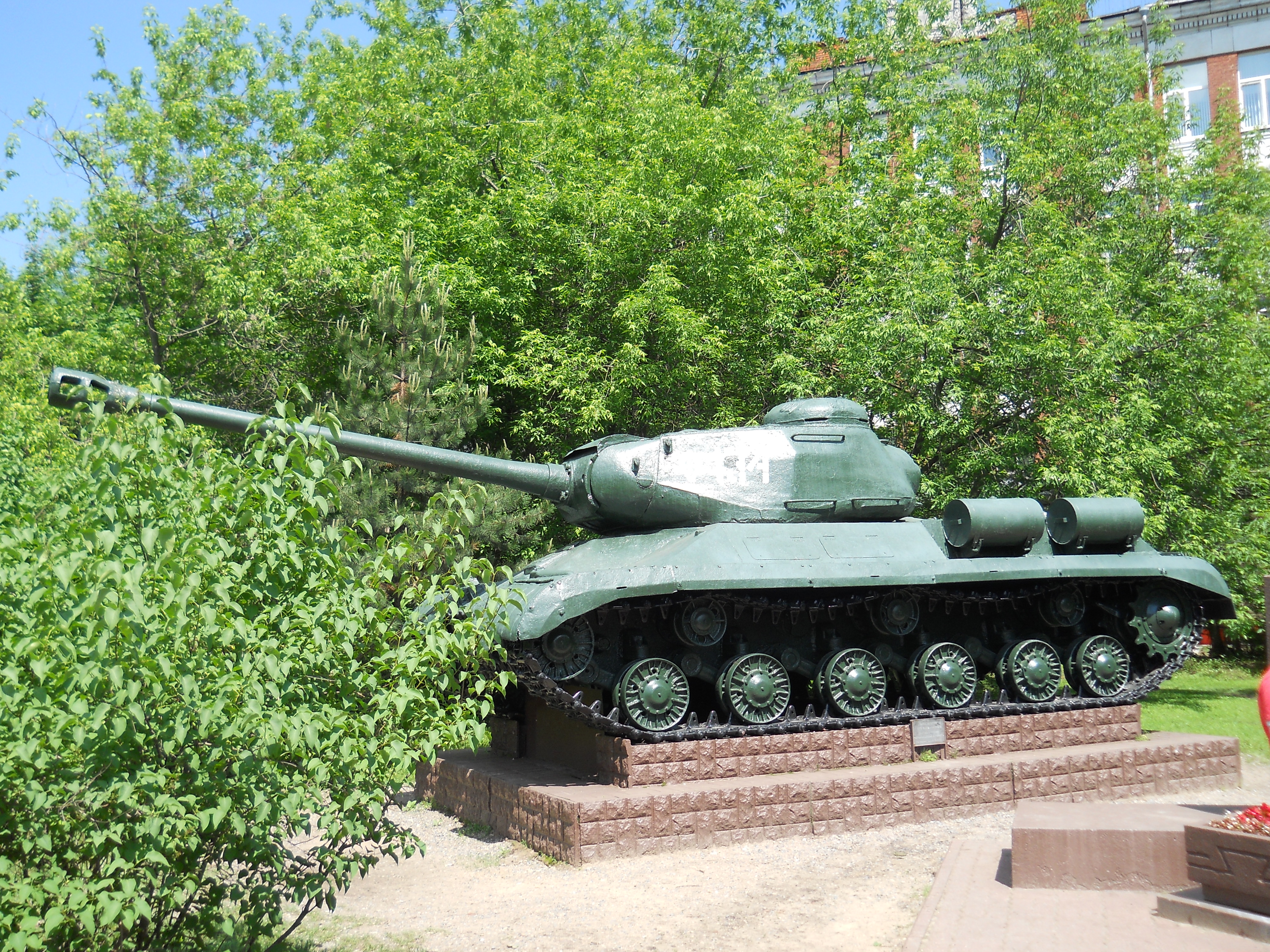 Tamanskaya street, Moscow.